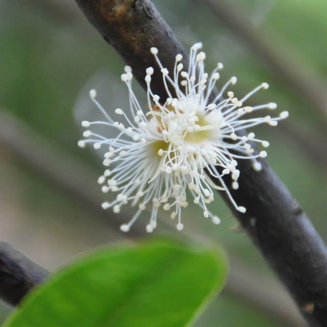 Cambucá flower